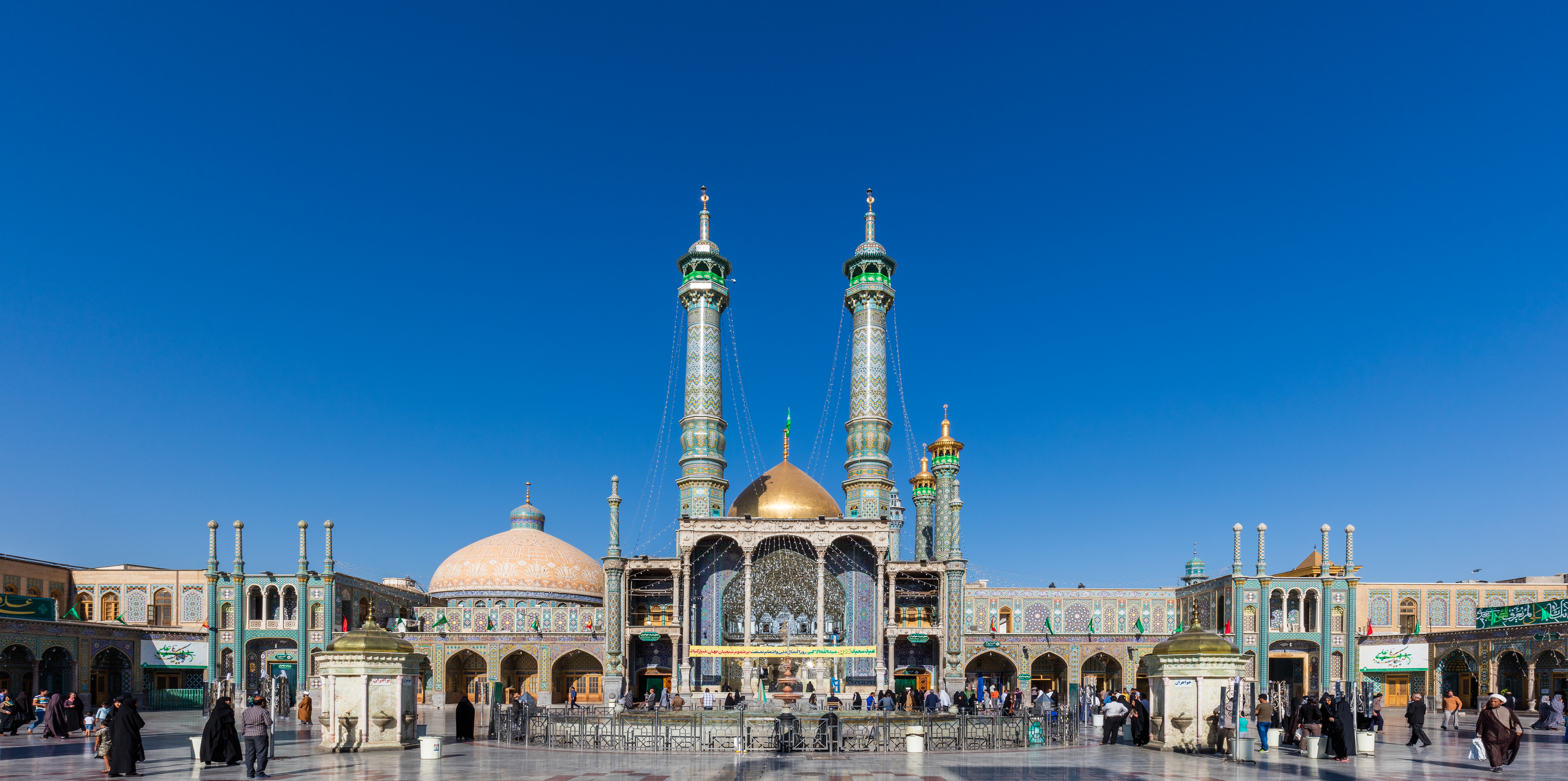 Fatimah Ma'sumah Shrine, Qom, Iran